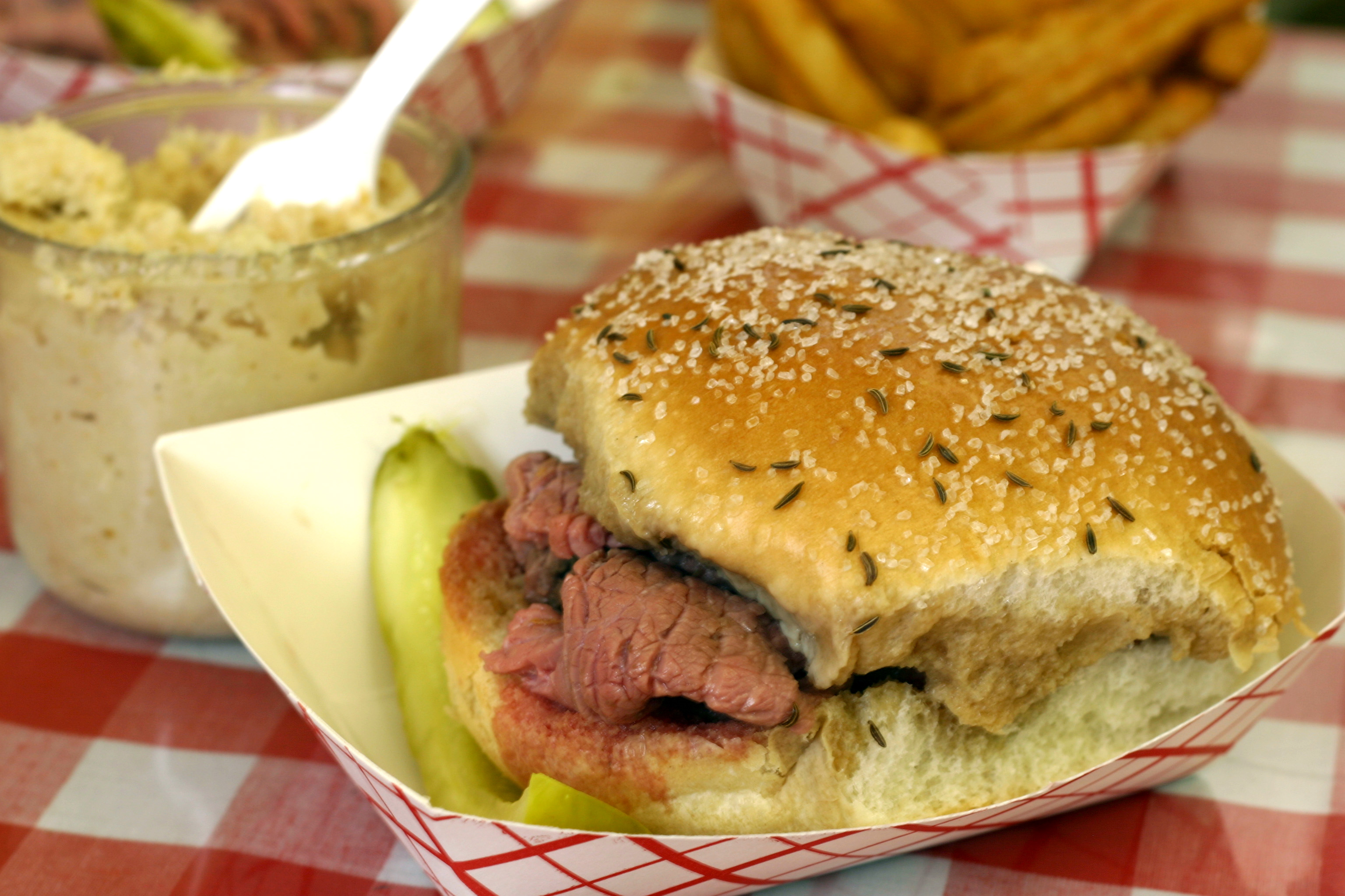 I took this picture. You can find a larger version of it in my Flickr feed at